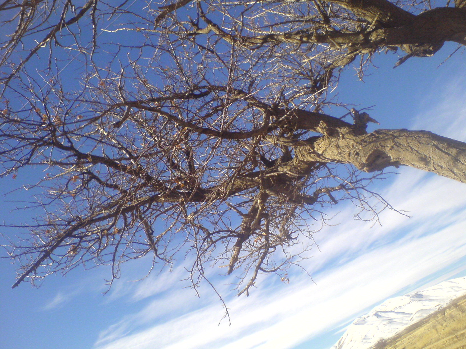 faraj abad فرج آباد روستایی زیبا در استان مرکزی شهرستان خمین